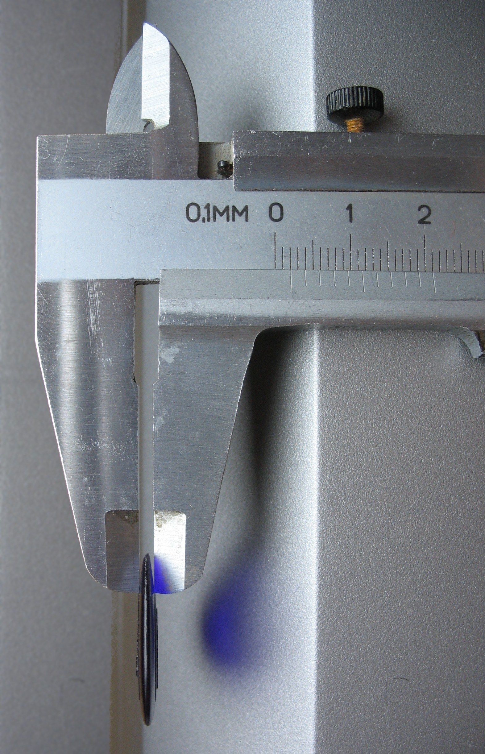 Guitar pick (Jim Dunlop Stubby 2.0 mm) thickness, measured by a caliper. This pick is really exactly 2.0 mm thick.